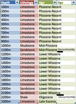 Stratigraphy of Nias basin adapted from Beaudry & Moore 1980